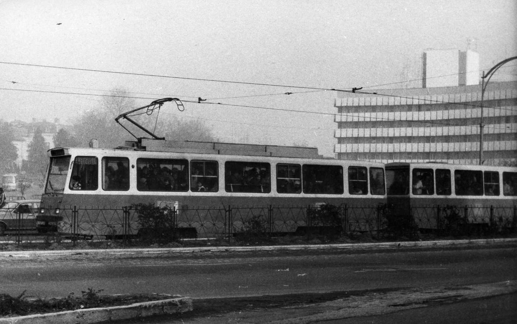 Romanian Timiș 2 type trams in Craiova sent to me by a Romanian correspondent.